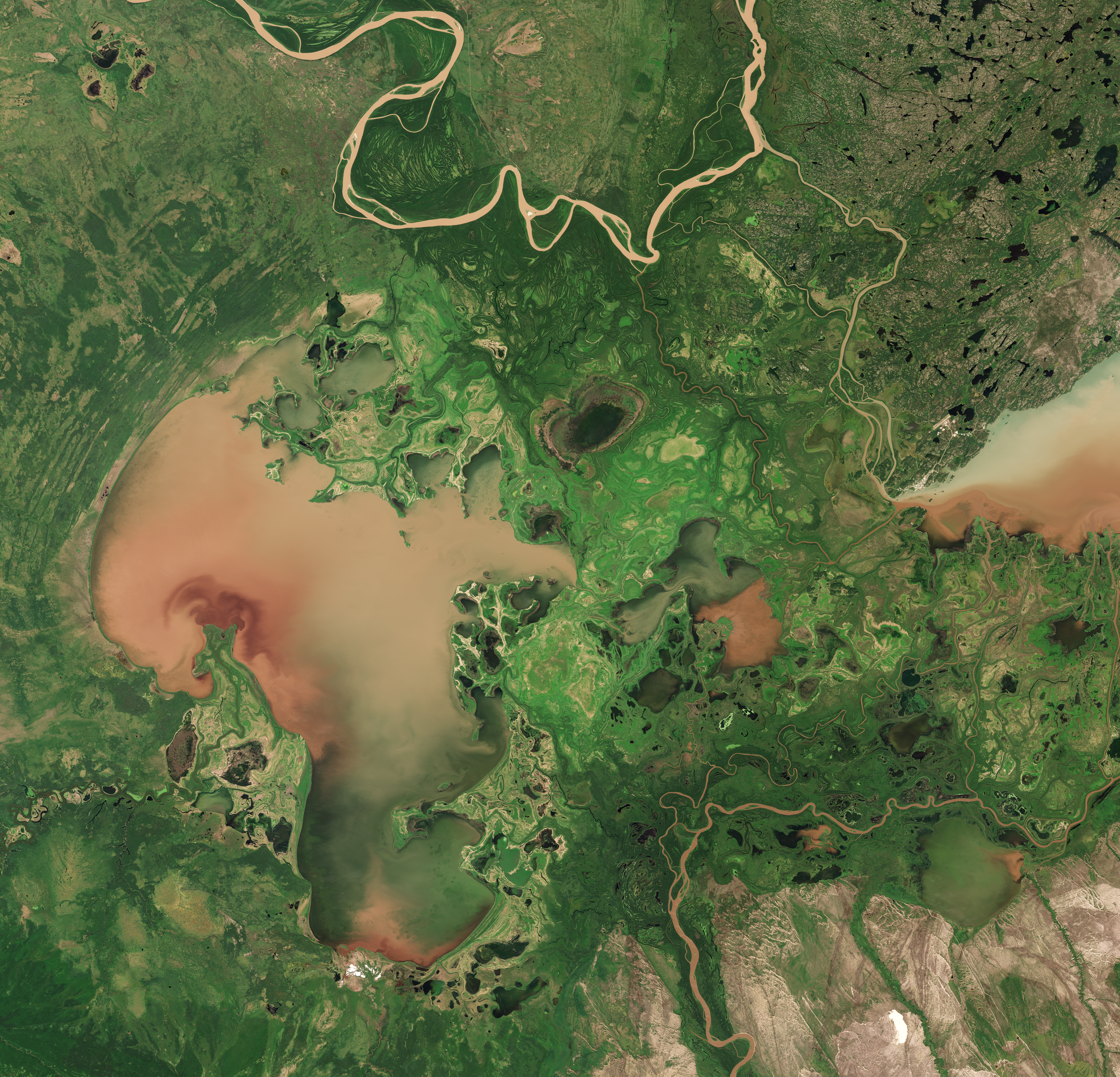 Date: 2018-07-11 Sensor: MSI on Sentinel-2A Resolution: 20m (Downsampled) RGB Composites: True color, Band 4-3-2